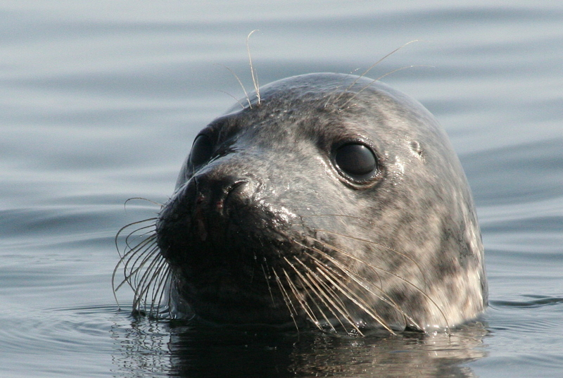 A young cow Grey Seal Halichoerus grypus - whiskers and all. The Halliman Skerry supports a sizeable seal colony; I have spotted members from this colony as far away as seven miles north from their home pitch.